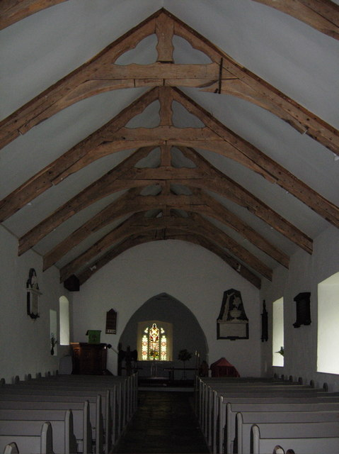 Interior of Llanfihangel Penbryn church of St Michael Looking east down the nave of this simple country church, showing the carved roof trusses, and unadorned arch to the chancel. The church is set on a hilltop surrounded by an ancient circular churchyard, with the sea under half a kilometre away. Aerial photograph here